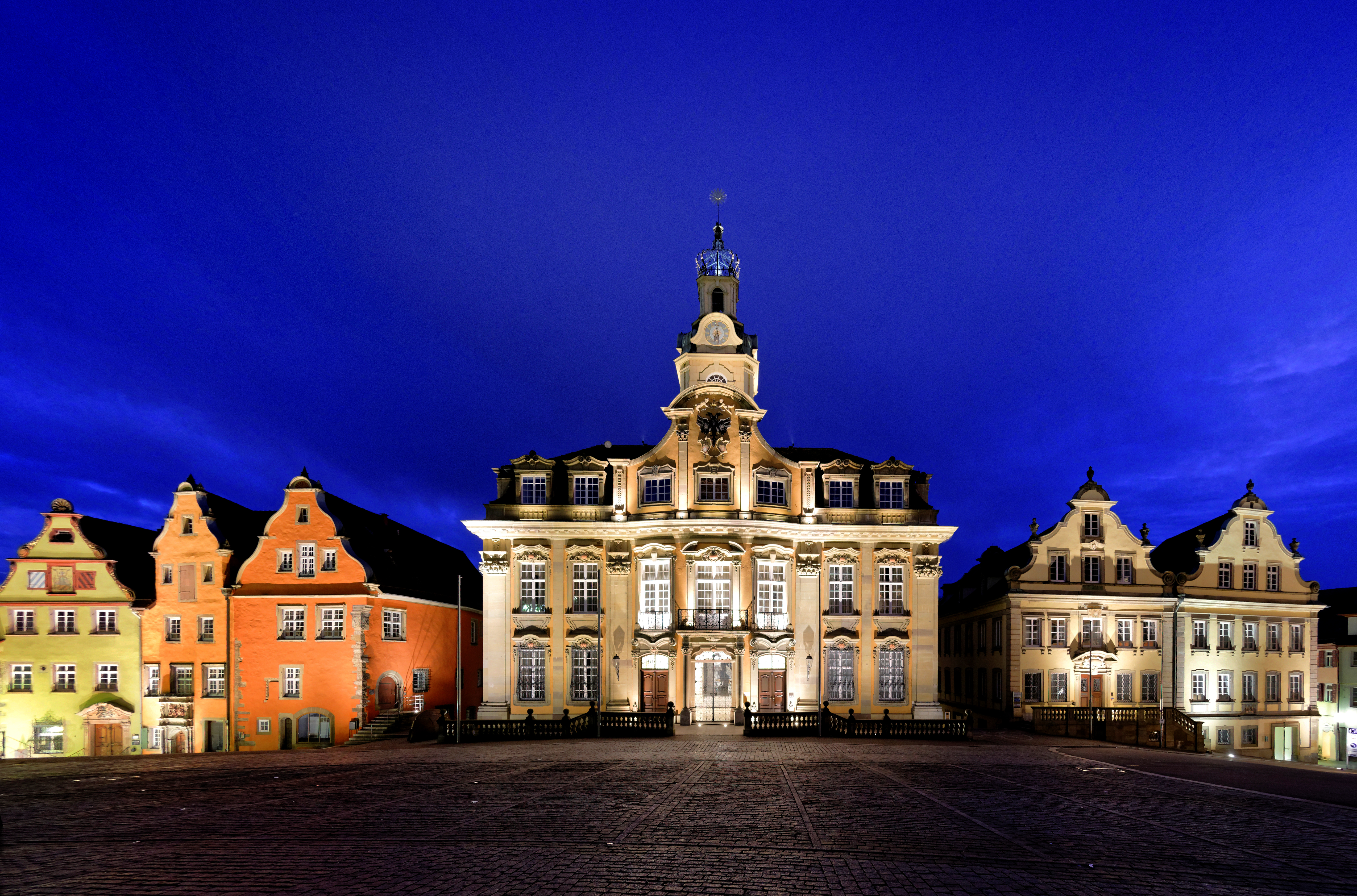 The market place Schwäbisch Hall in the evening.